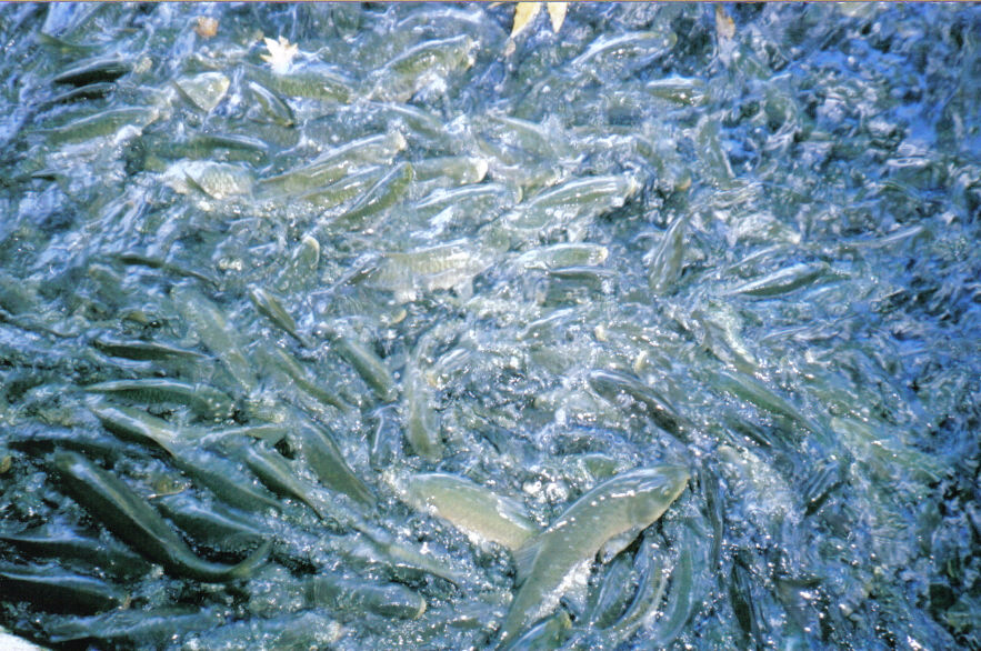 Carp swarm in great numbers to eat feed thrown by tourists in Urfa, Turkey. Local belief holds the carp to be sacred due to their association with Abraham's birthplace. (C) 2003, Gerry Lynch.